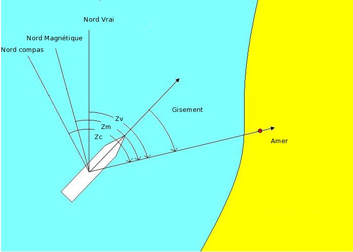 Gisement (marine) Change text from spanish to french